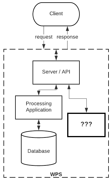 A KaaS is widely regarded to be something akin to a DaaS or a WPS plus some additional data/processing element that raises the service offering from mere data/information/computation to knowledge